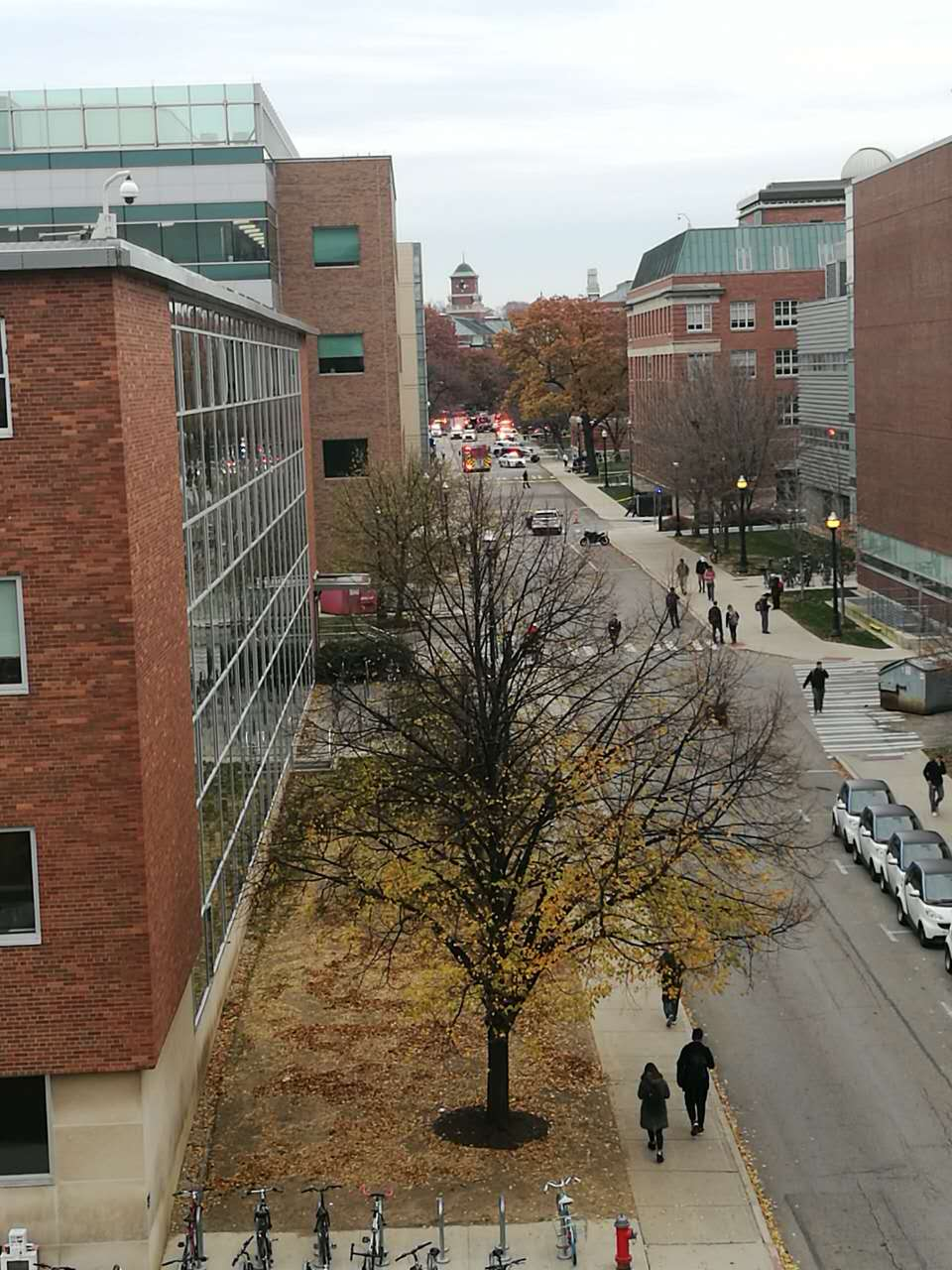 The Ohio State University shooting, view from Dreese Lab